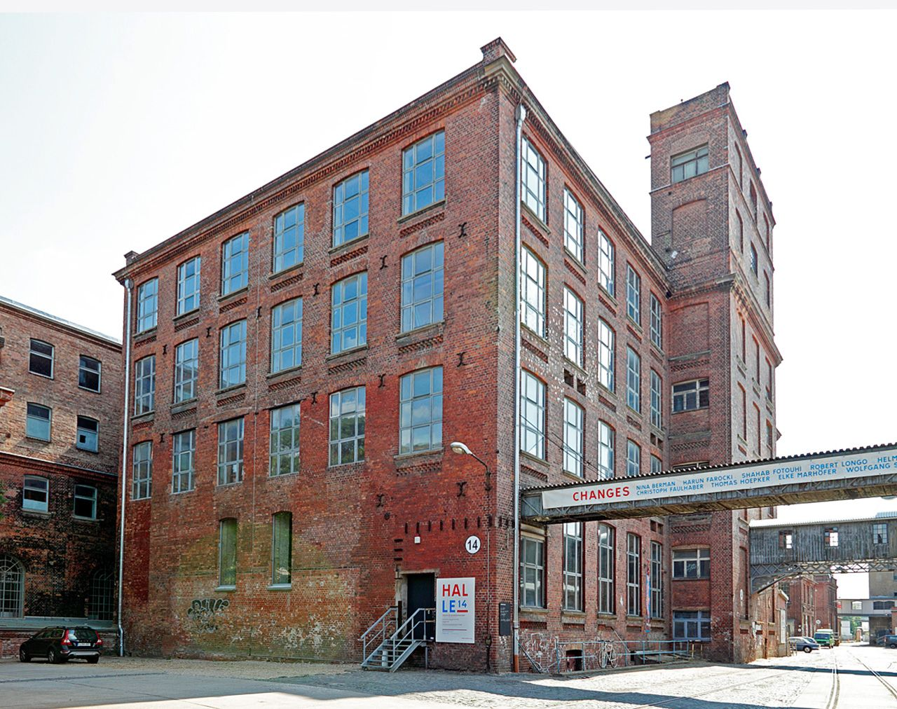 non-profit art-space Halle 14 at Spinnerei Leipzig